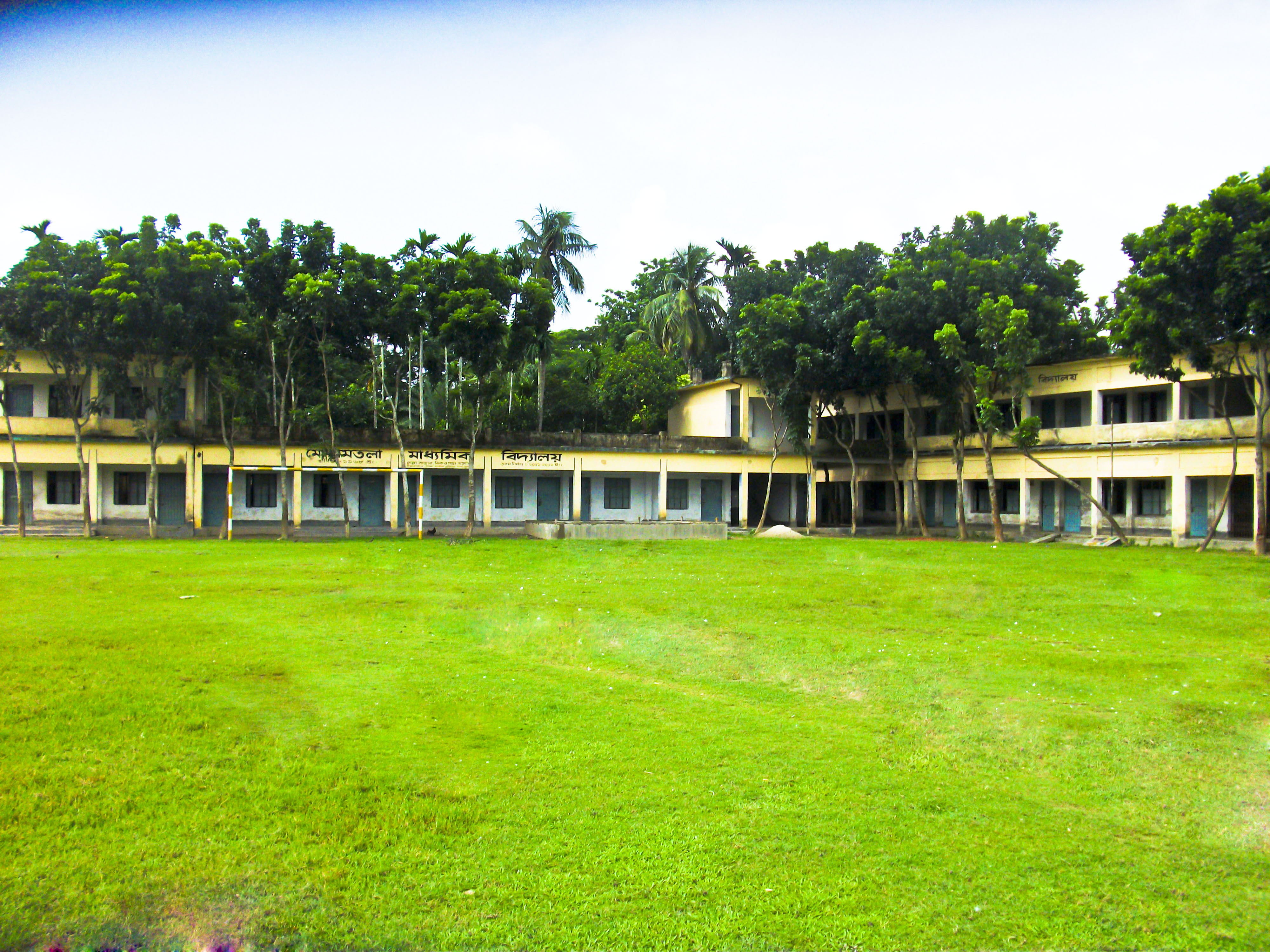 It is Mokamtala Secondary School bulding